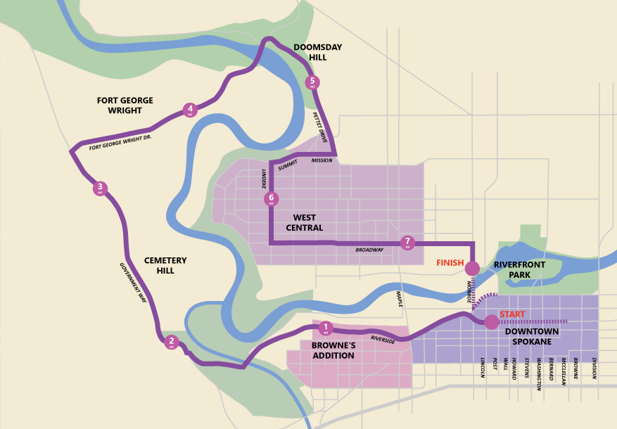 Course Map of the Lilac Bloomsday Run in Spokane, Washington.